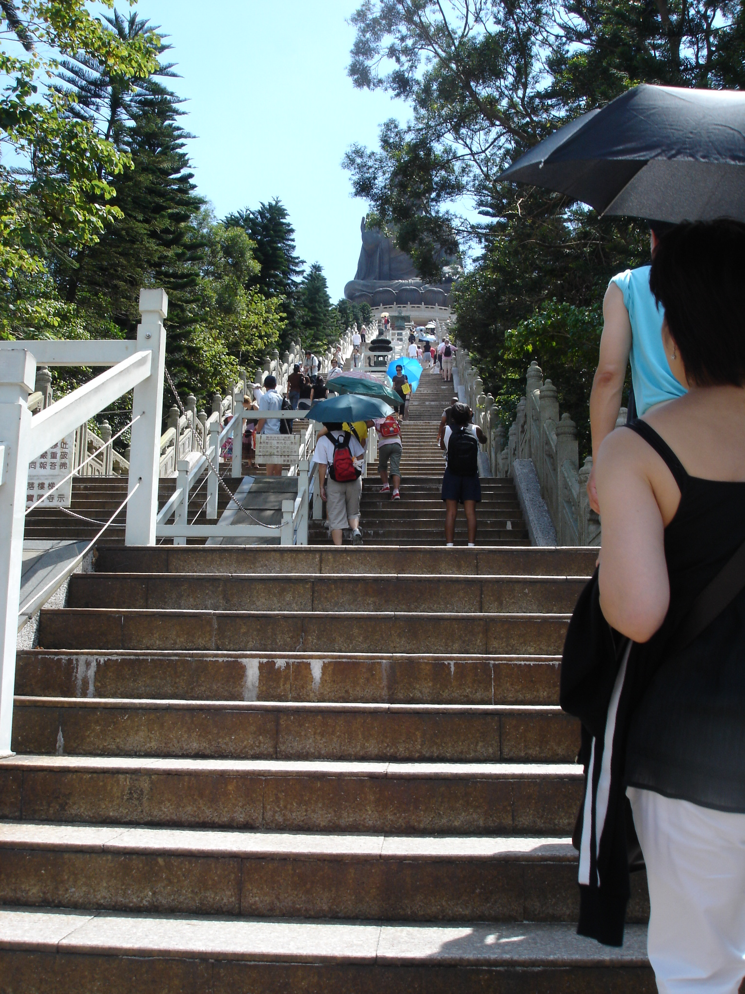 Author: One more night, August 2006